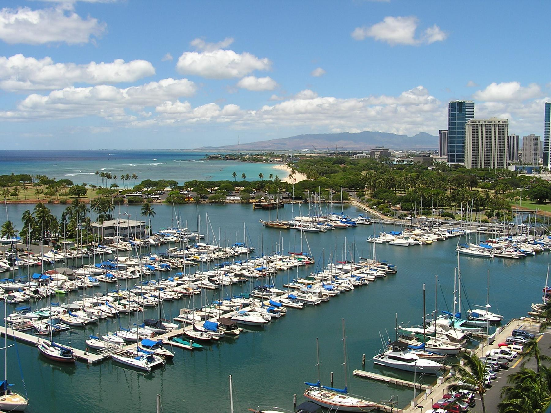 The harbor outside the Hawaii Prince Hotel in Honolulu